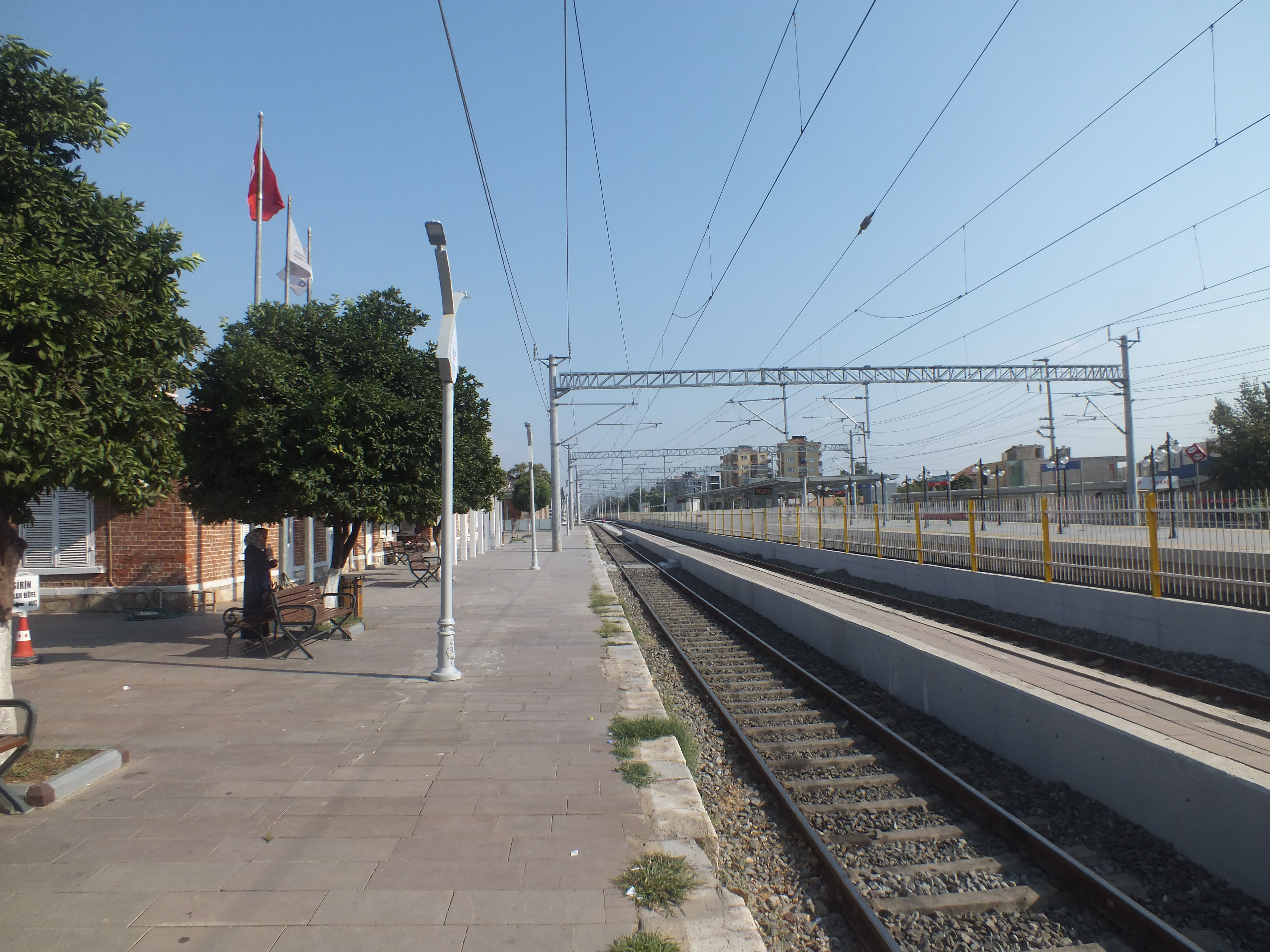 The TCDD platform of Torbali station.